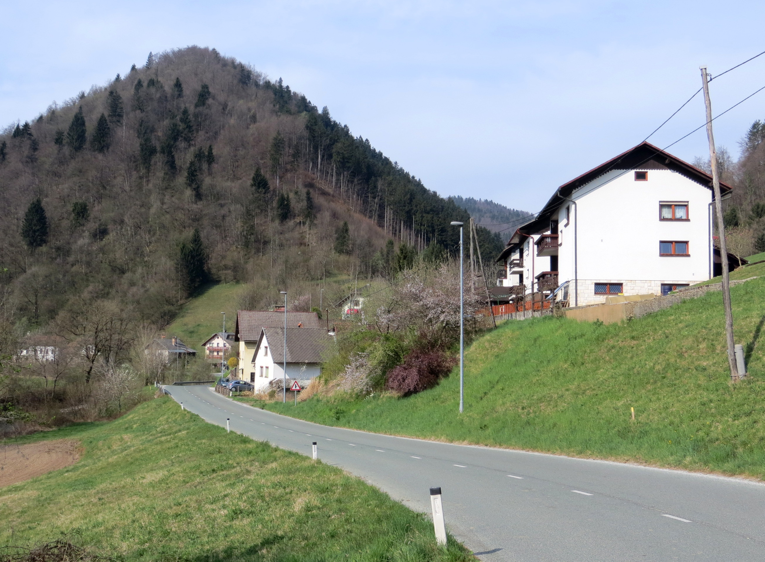 Podpulfrca, Municipality of Škofja Loka, Slovenia